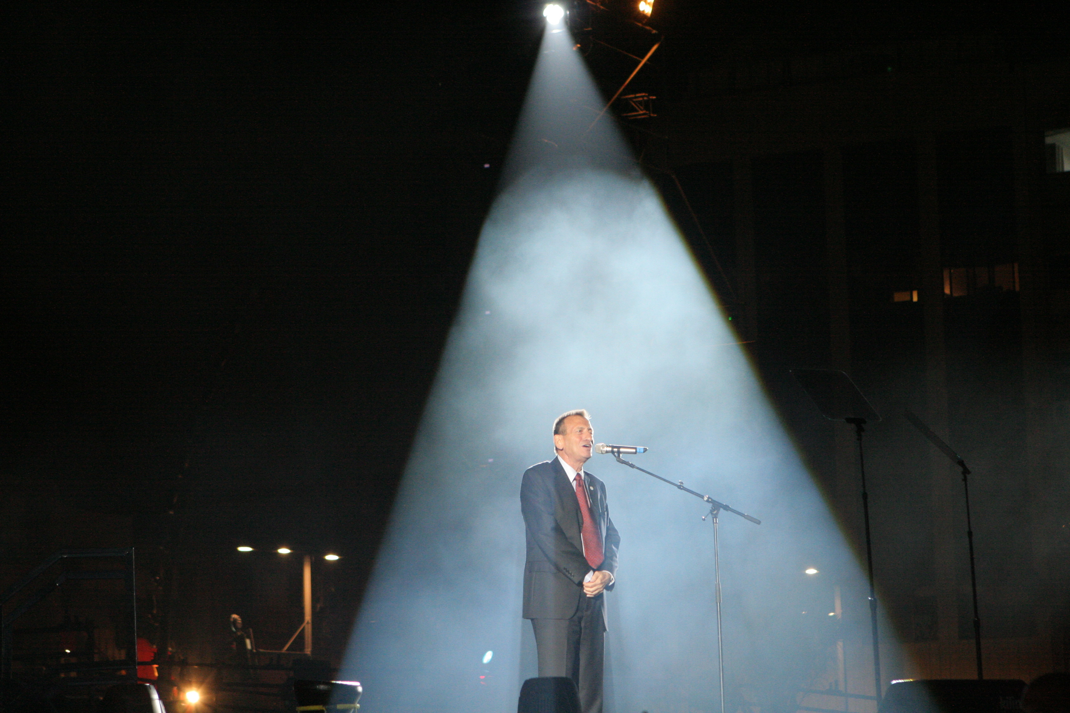 Ron Huldai - Tel Aviv Mayor